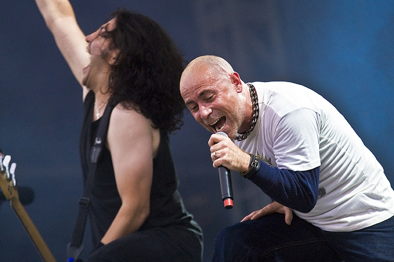 Anthrax performing at Sonisphere festival in Knebworth, 2009